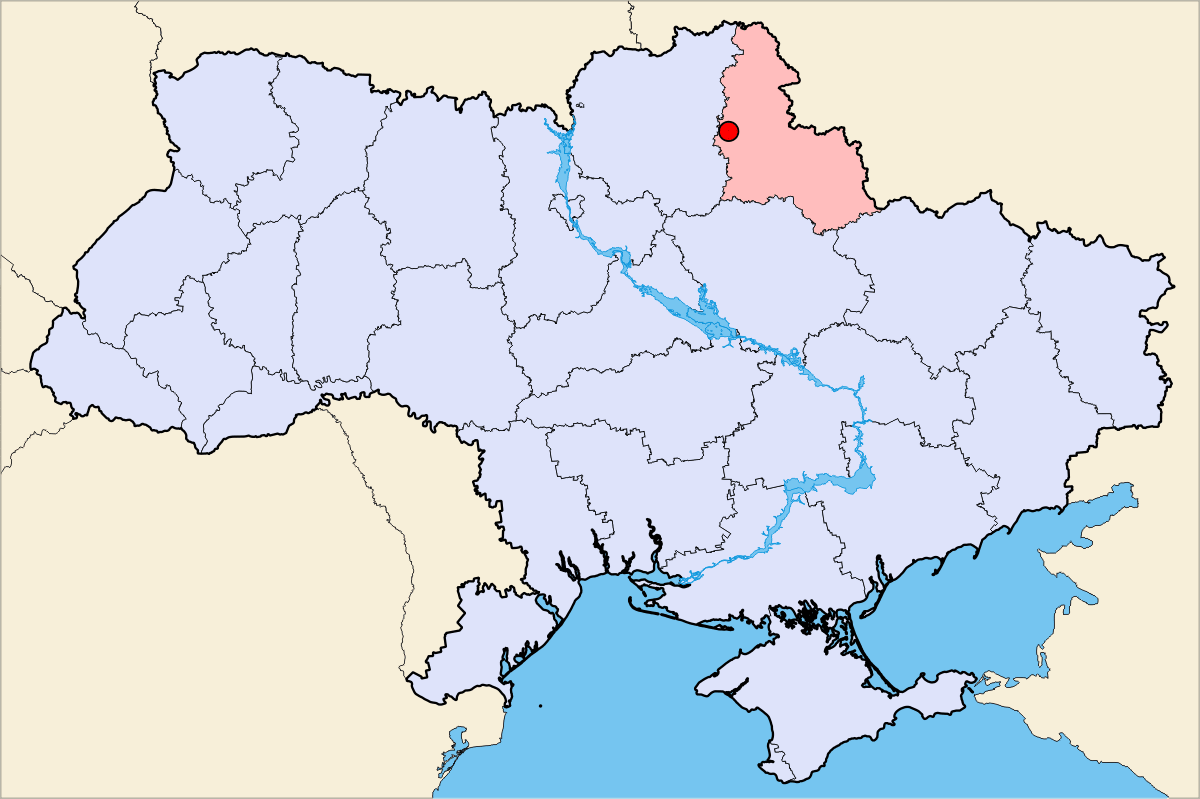 Description = Konotop geographical position Source = own work, Skluesener Date = 22.01.2006 Author = Skluesener Credits = Colours chosen according to a map of steschke